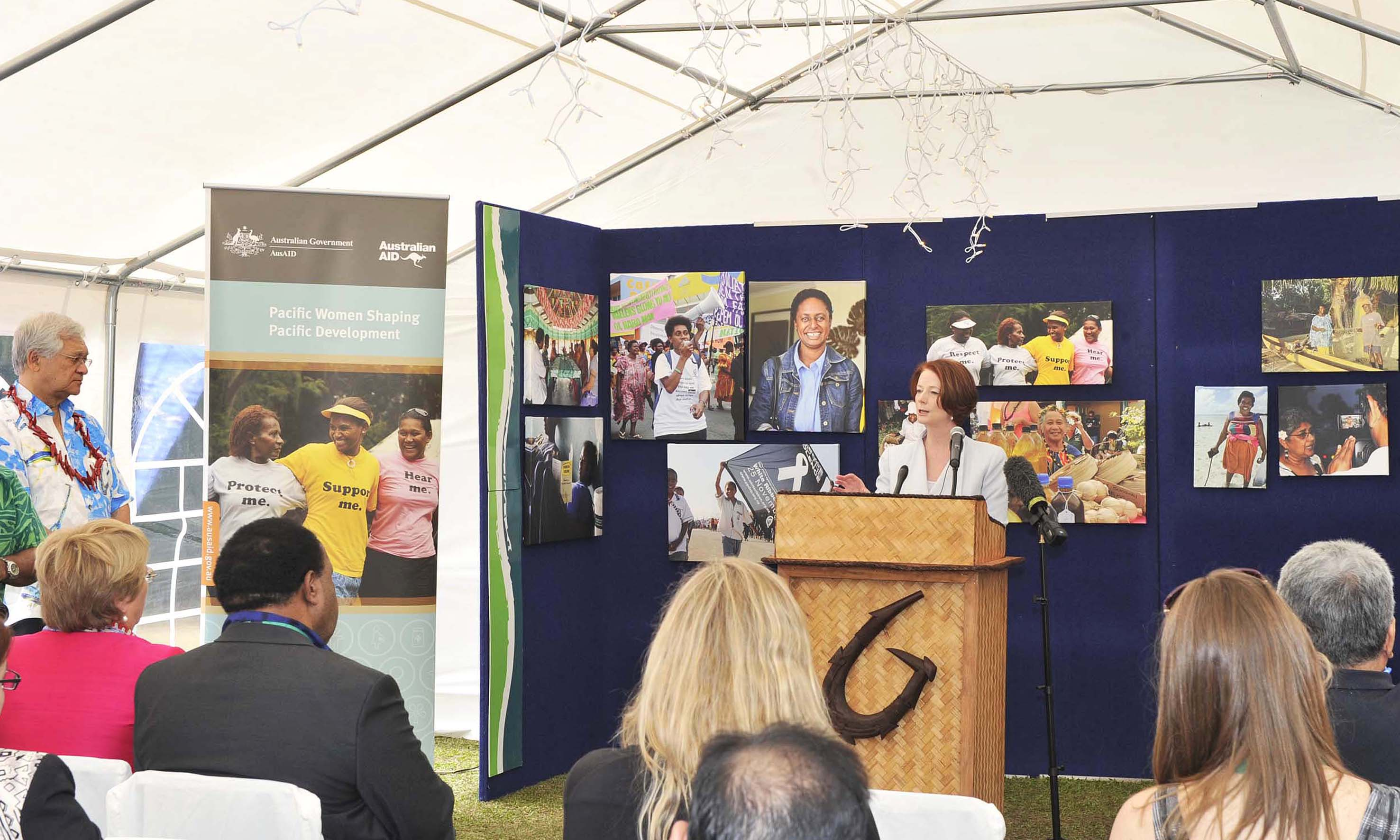 The Honourable Julia Gillard MP, Prime Minister of Australia at the 43rd Pacific Islands Forum, Cook Islands, 28/8/12 - 01/9/12.